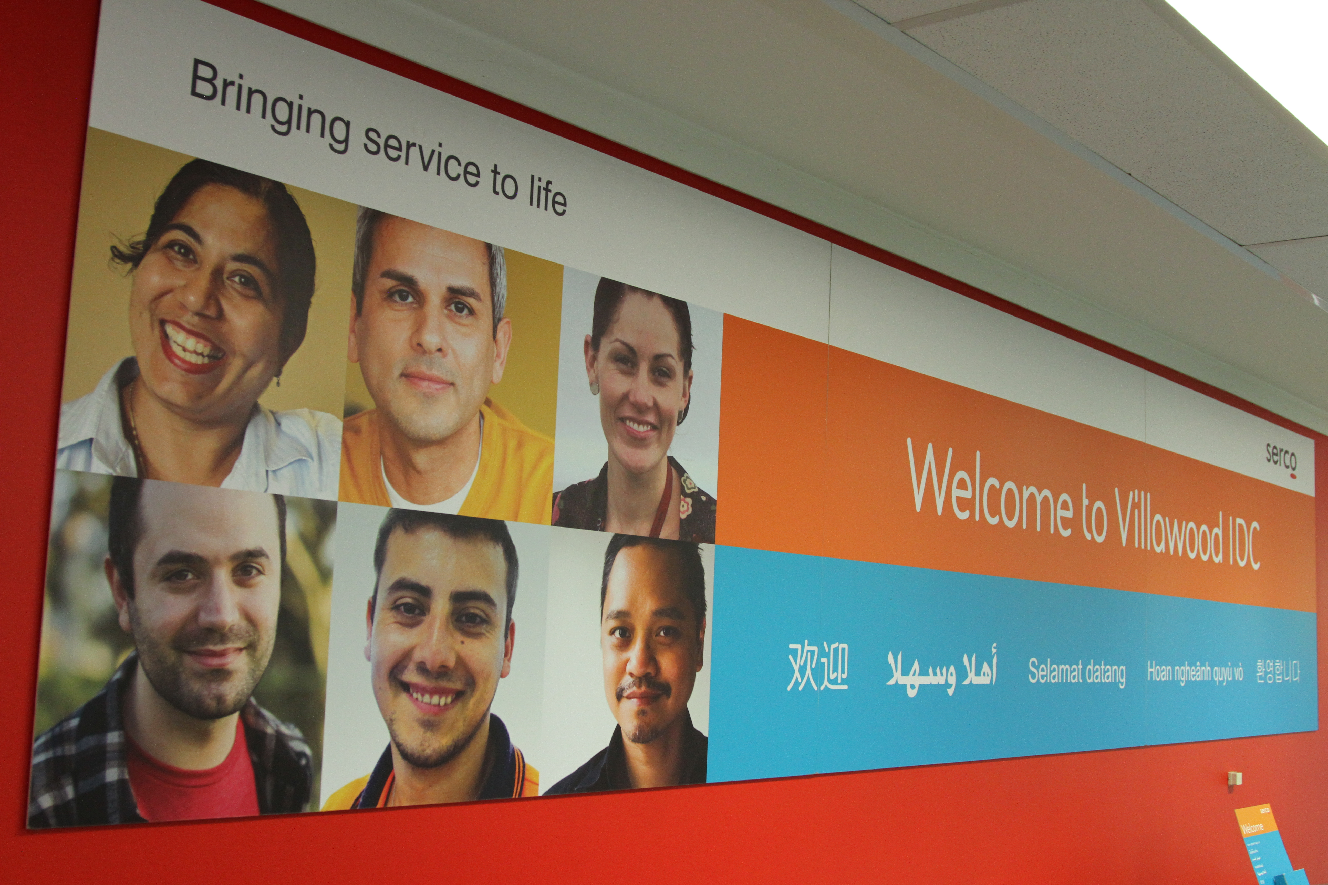 Villawood IDC